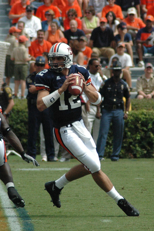 Auburn University college football quarterback drops back for a pass